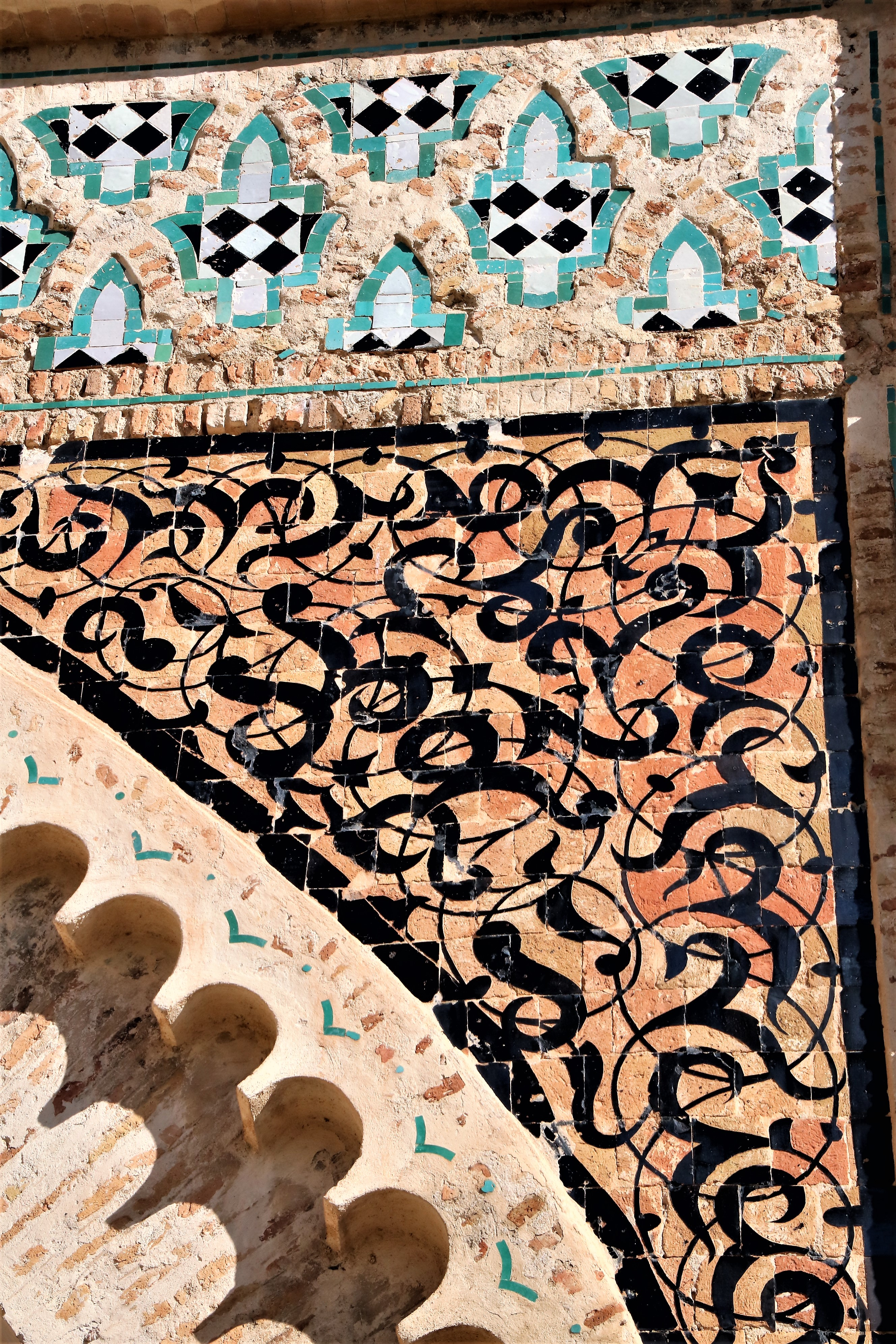 Visit in Fes December,27th 2019 to January 1st,2020